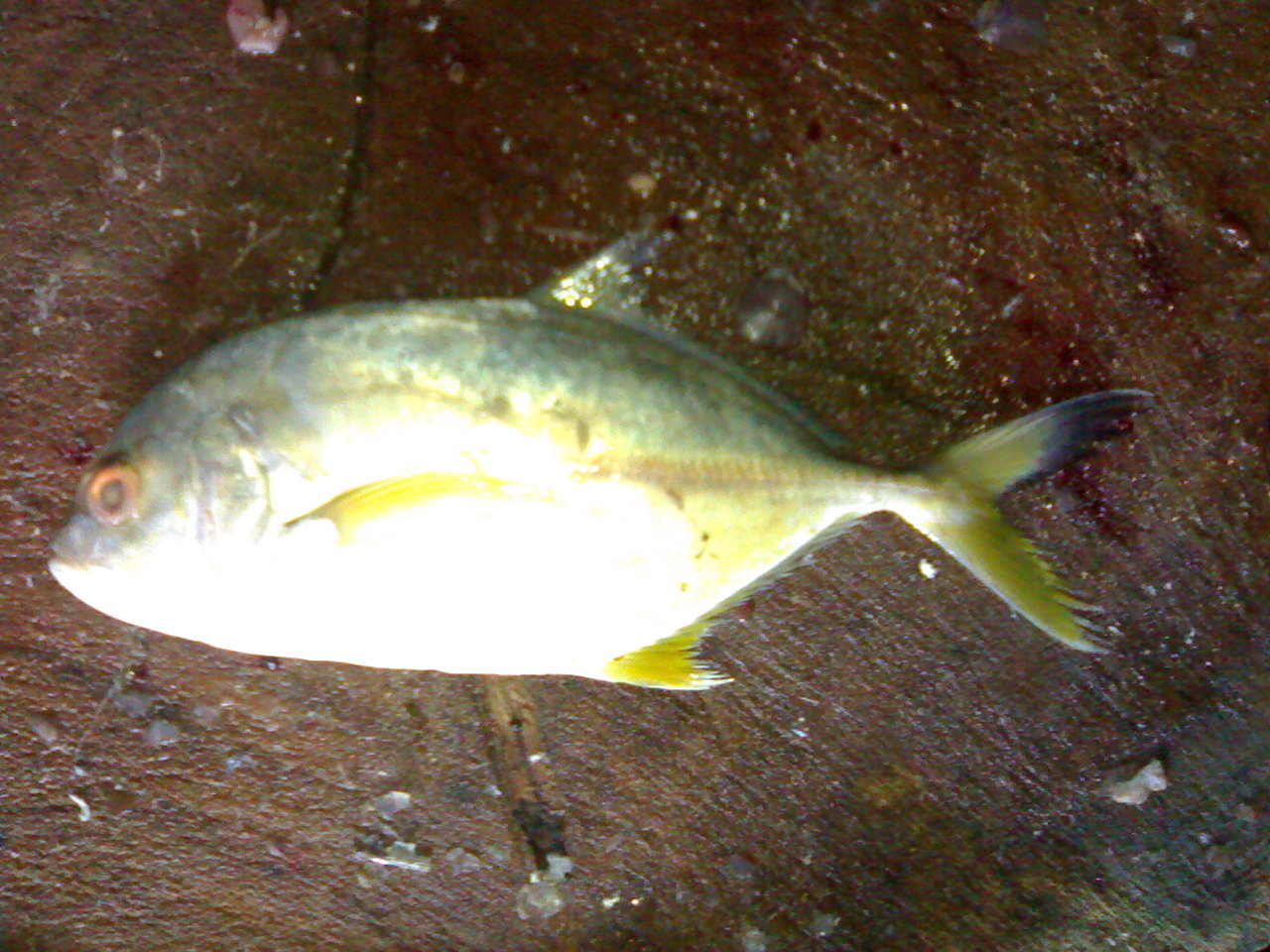 Some trevally from Carangidae family, probably Caranx heberi (per Kare Kare). Caught in the Coromandel Coast, photographed in a shop in Bangalore.